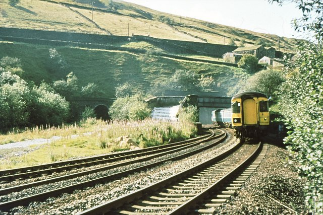 Standedge Tunnel east end 1981